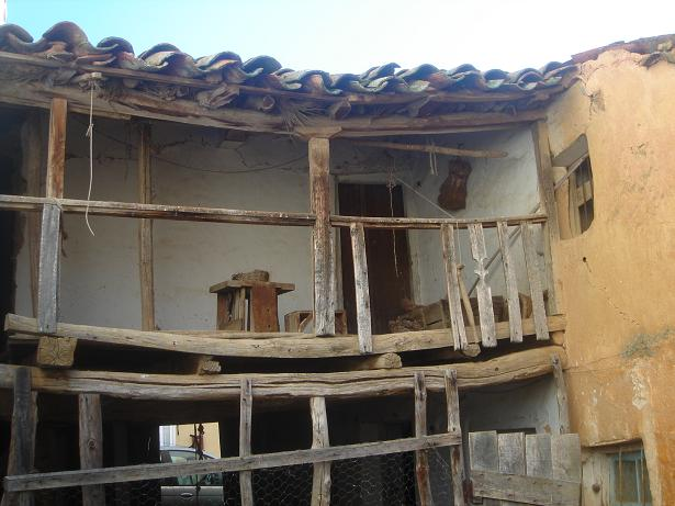 IMAGEN CEDIDA A WIKIPEDIA POR BLAS DE PAZ, CORREDOR DE UNA CASA RURAL TRADICIONAL DE CAMARZANA DE TERA